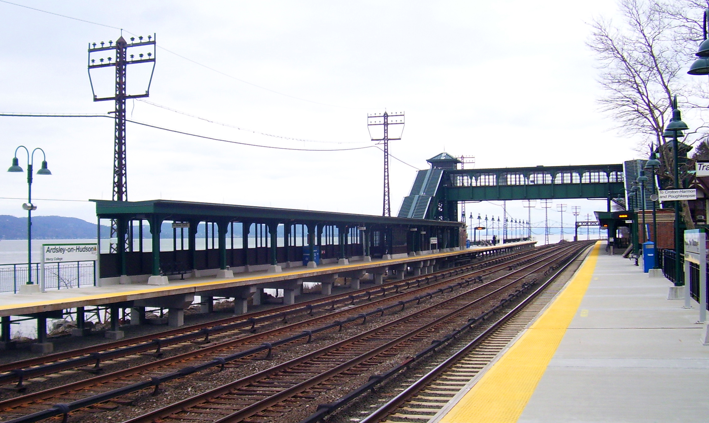 Ardsley-on-Hudson train station, Irvington, NY, USA. Tappan Zee Bridge visible in background